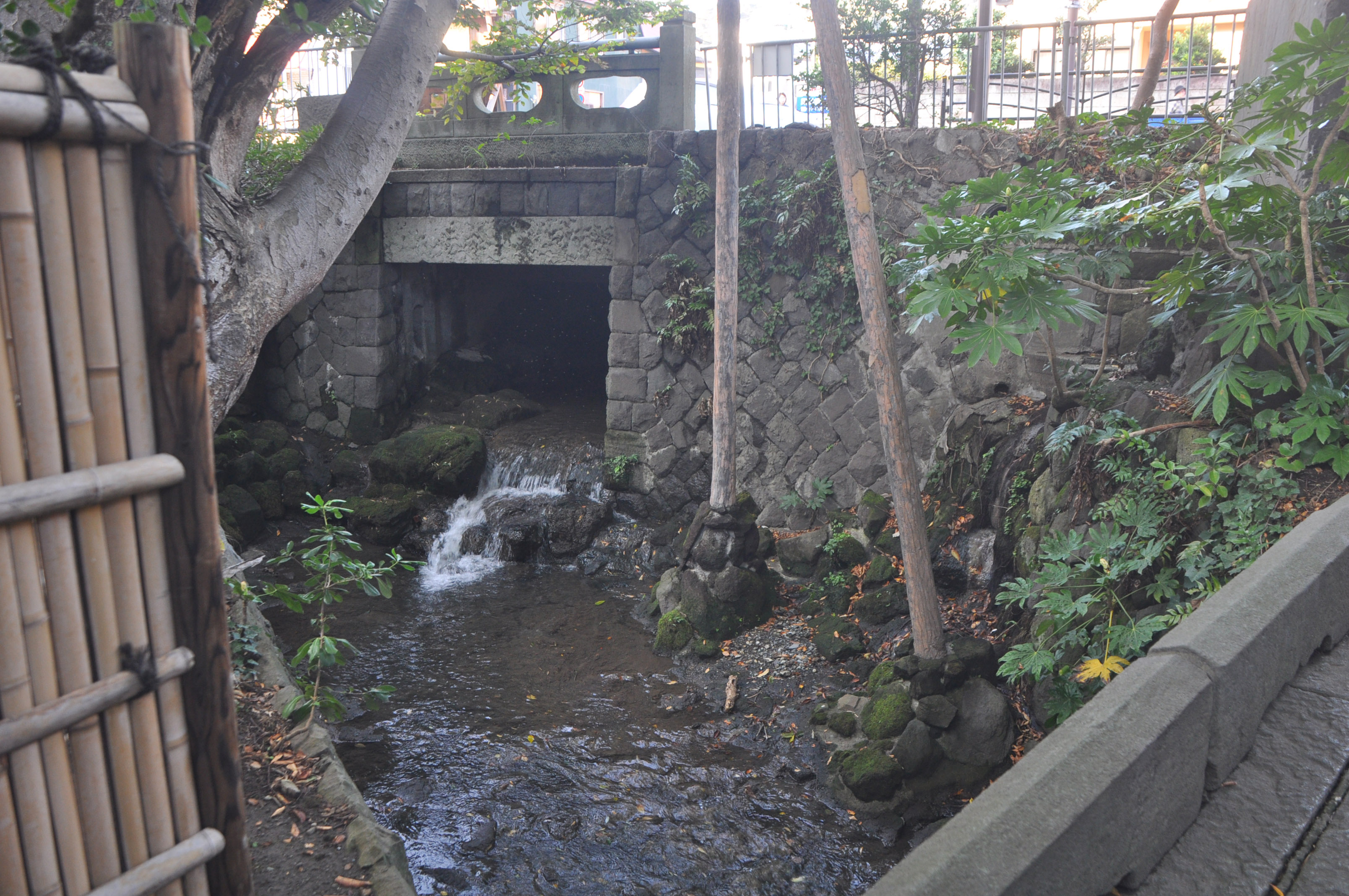 The Shigitatsu-sawa rivulet at Shigitatsu-an in Oiso, Kanagawa, Japan